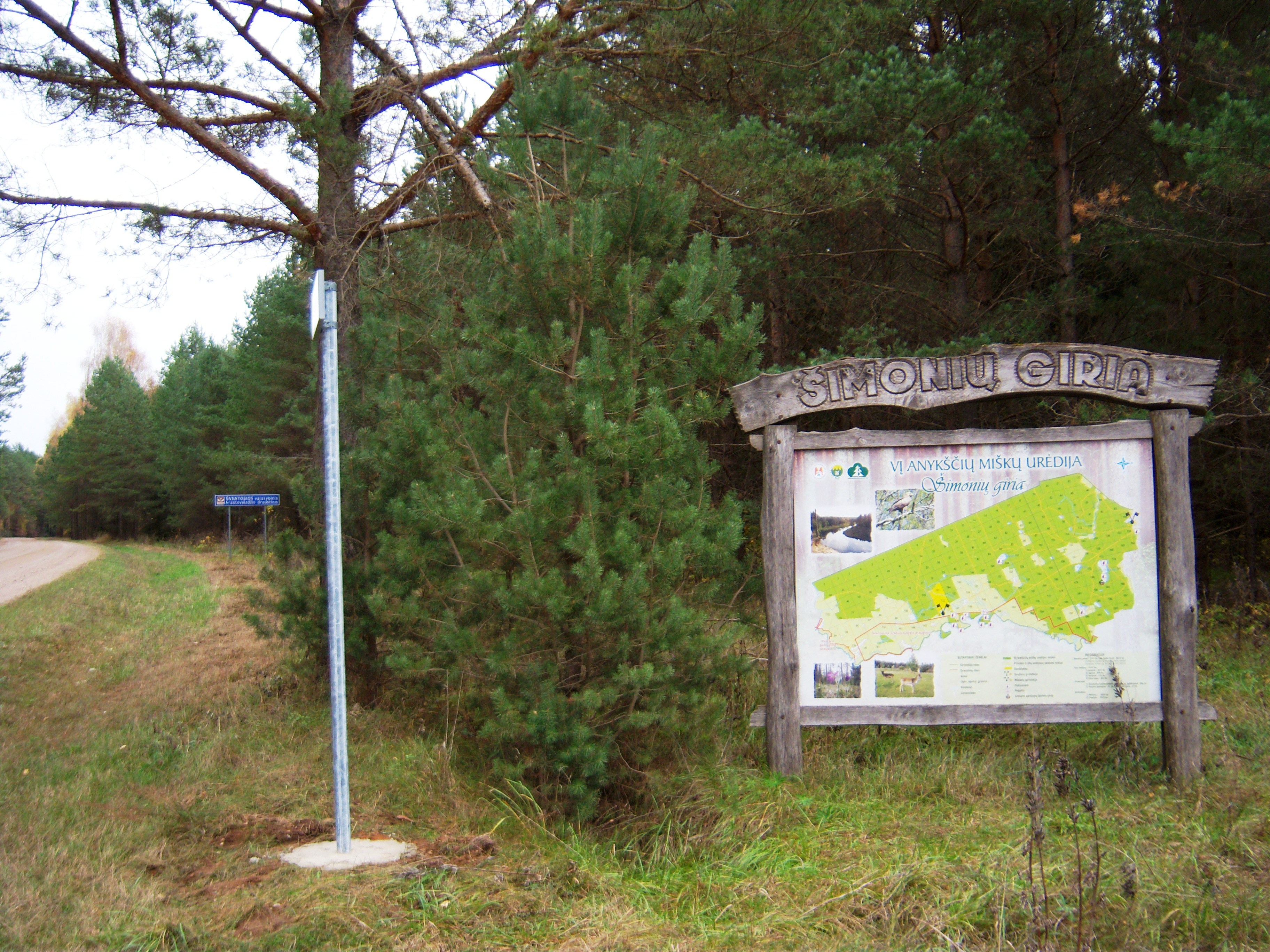 Šimonys Forest, Anykščiai District, Lithuania